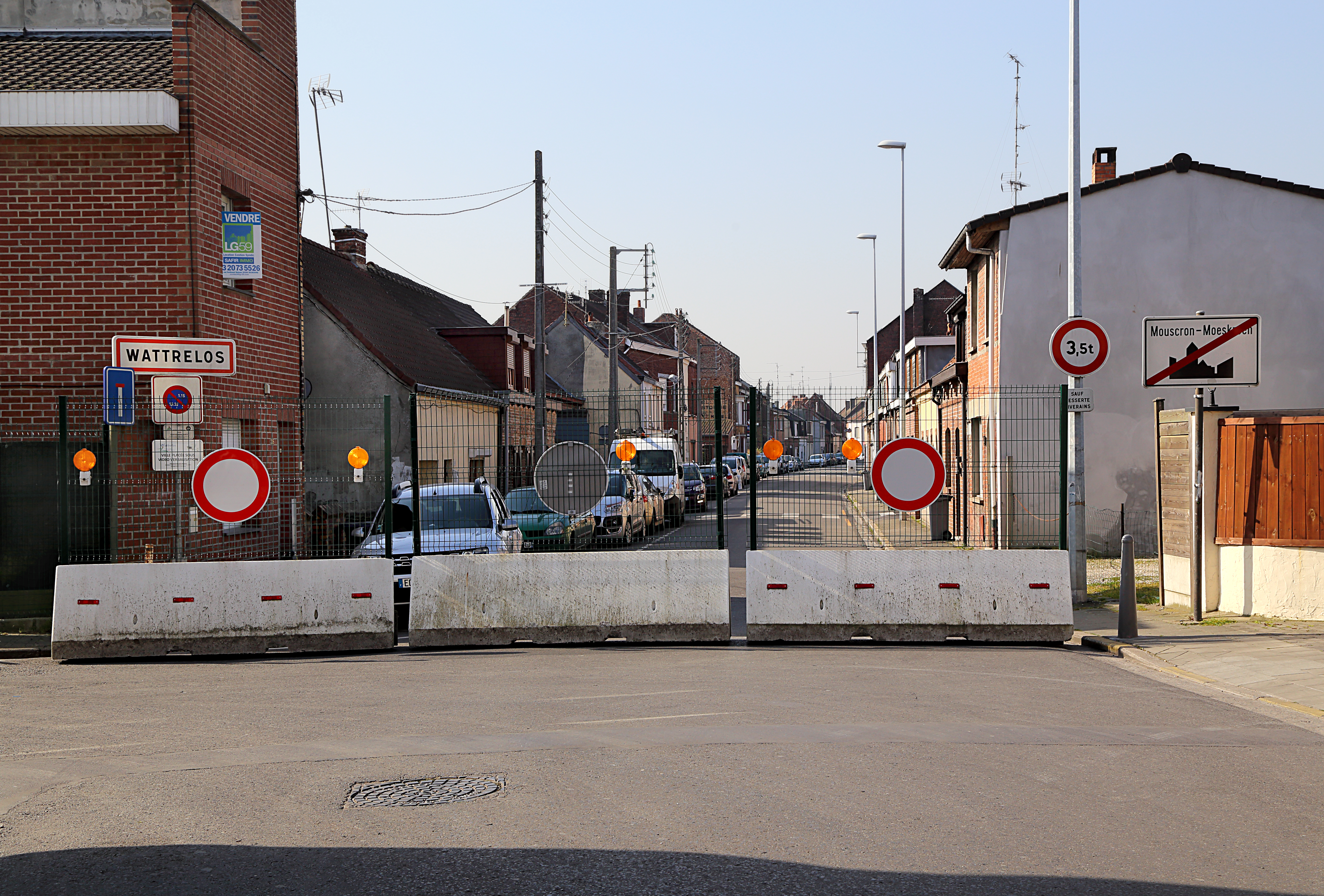 Border (rue de la Marlière) in Mouscron, Belgium closed due to the Covid-19 pandemic. This border separates Mouscron from Wattrelos and Tourcoing, France.